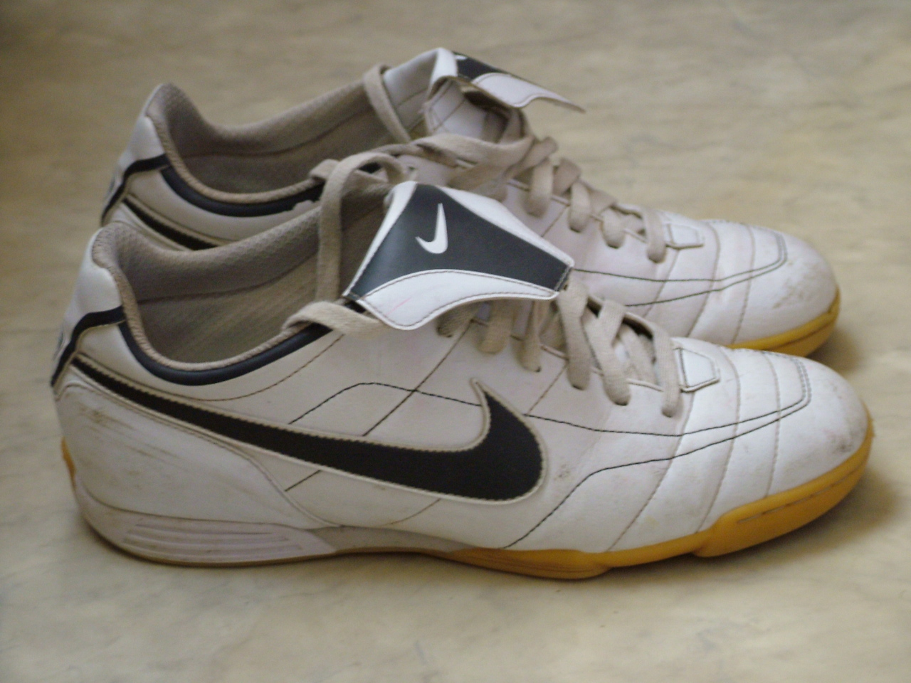 Niket Tiempo football boot